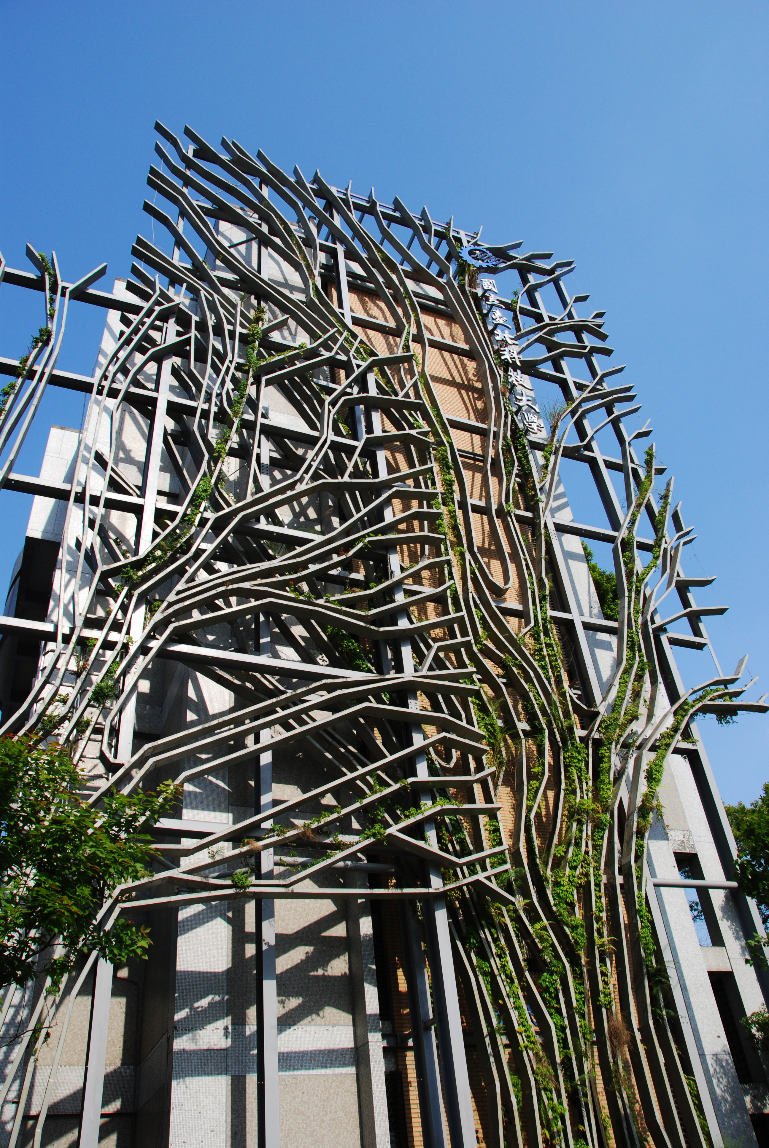 NTUT Green Gate中文（台灣）: 國立臺北科技大學綠色大門